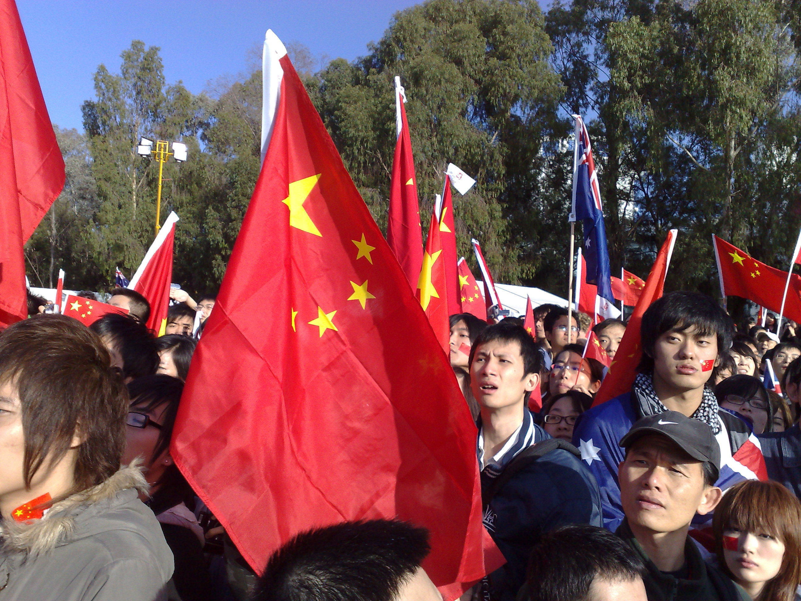 2008 Olympic Torch Relay in Canberra, Australia. Photo shows Chinese majority. Taken by me using a Nokia N95-1. Taken at Reconciliation Place, Canberra, Australia.